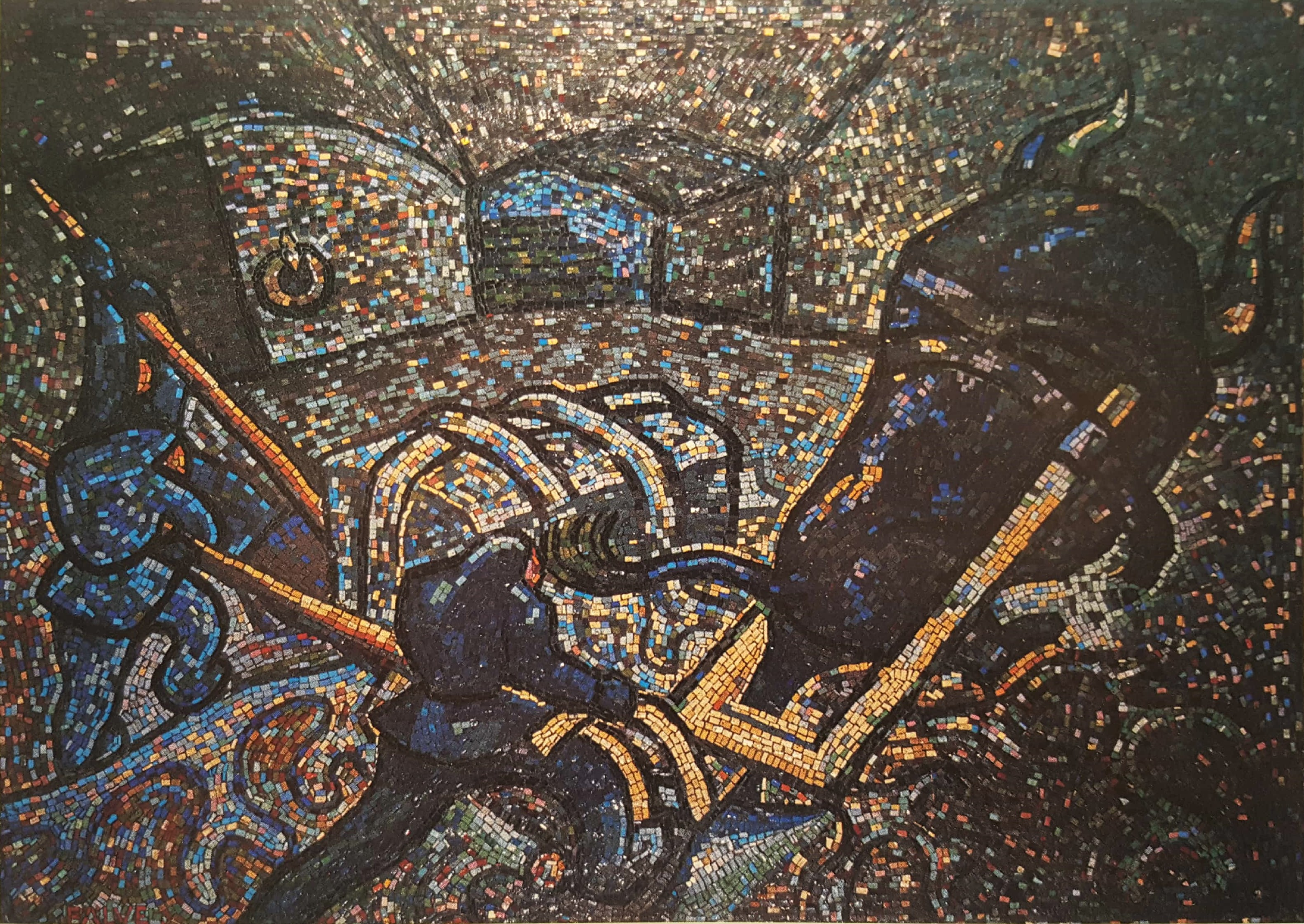 Picture of Veikko Aaltonas mosaic.